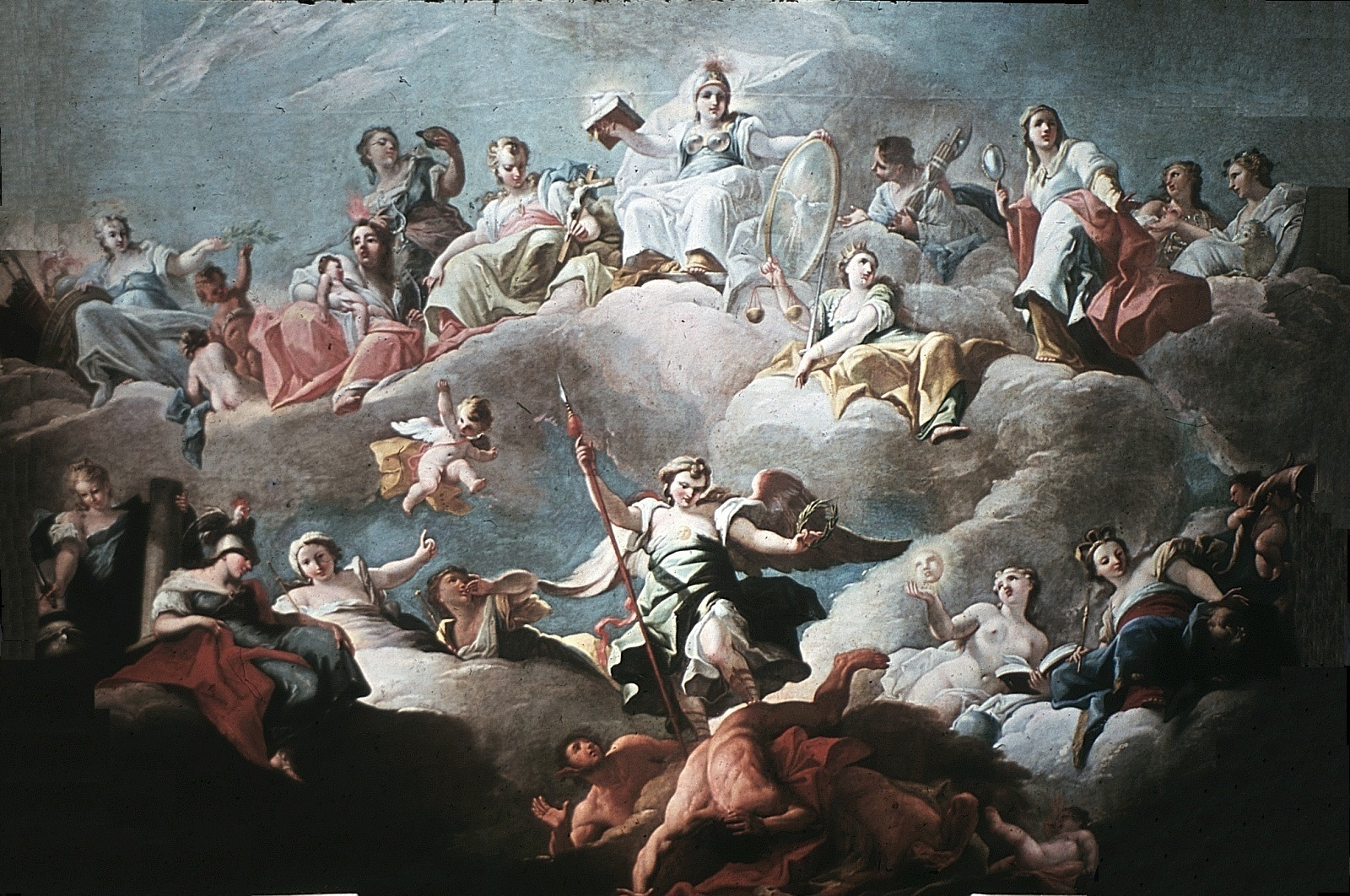 Schwäbisch Hall, Rathaus, Deckengemälde im Ratssaal "Sieg der Tugend über die Laster" oder "Sieg des Christentums über das Heidentum".jpg